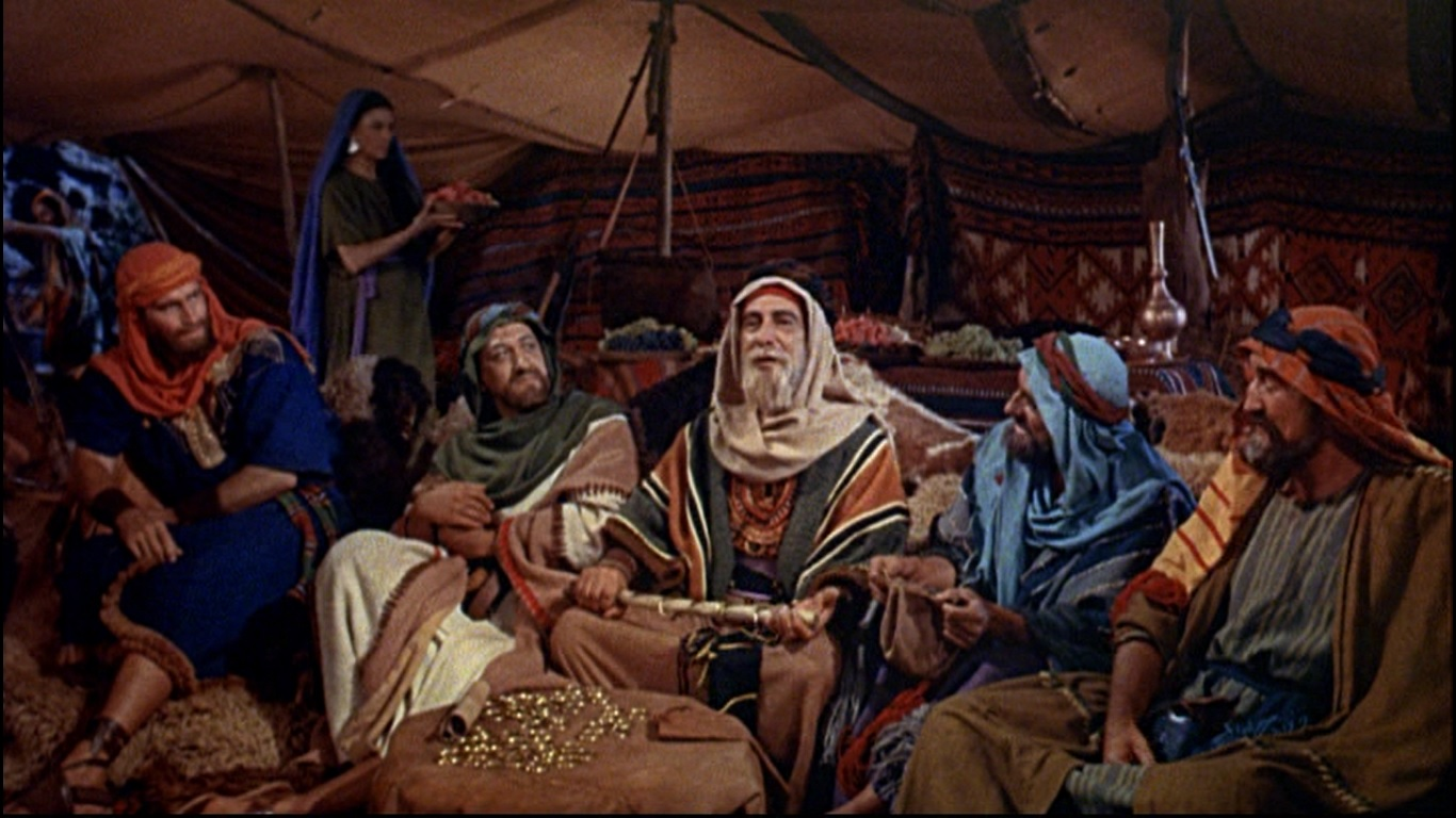 Charlton Heston (left) & Eduard Franz (center) in The Ten Commandments - trailer (cropped screenshot)